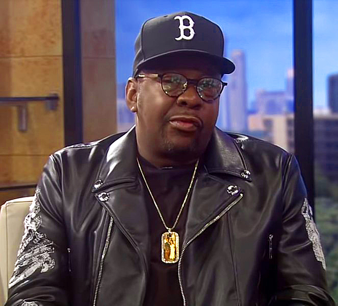 R&B singer Bobby Brown of New Edition interviewed on Sister Circle Live